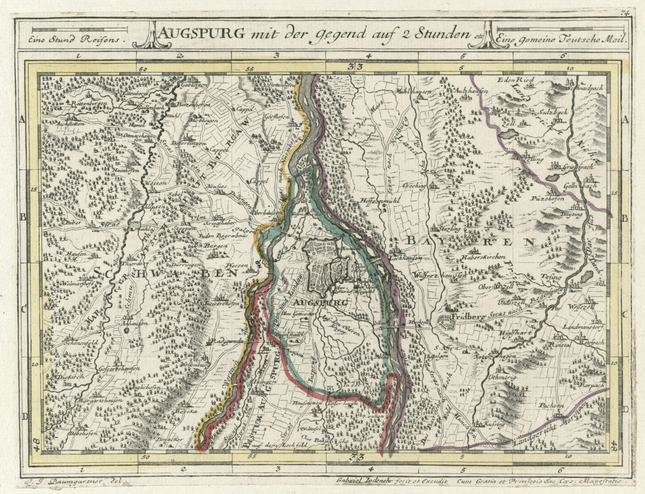 Early 18th century map of Augsburg and surrounding area. The blue line delineates the territory of the Free Imperial City of Augsburg, which included the city proper and a small surrounding area. Augsburg was separate and independent from the Prince-Bishopric of Augsburg.